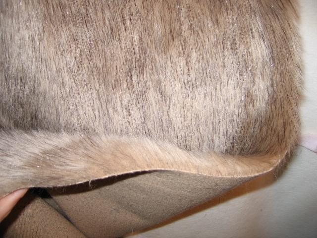 Synthetic fur